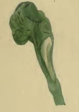 Stainton’s Natural History of the Tineina (1855–1873): Caryocolum fischerella a shoot of Saponaria officinalis with leaves spun together